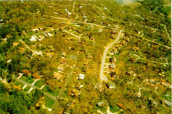 Aftermath of w:1998 Dunwoody tornado in Dunwoody, Georgia. Photo by National Weather Service.